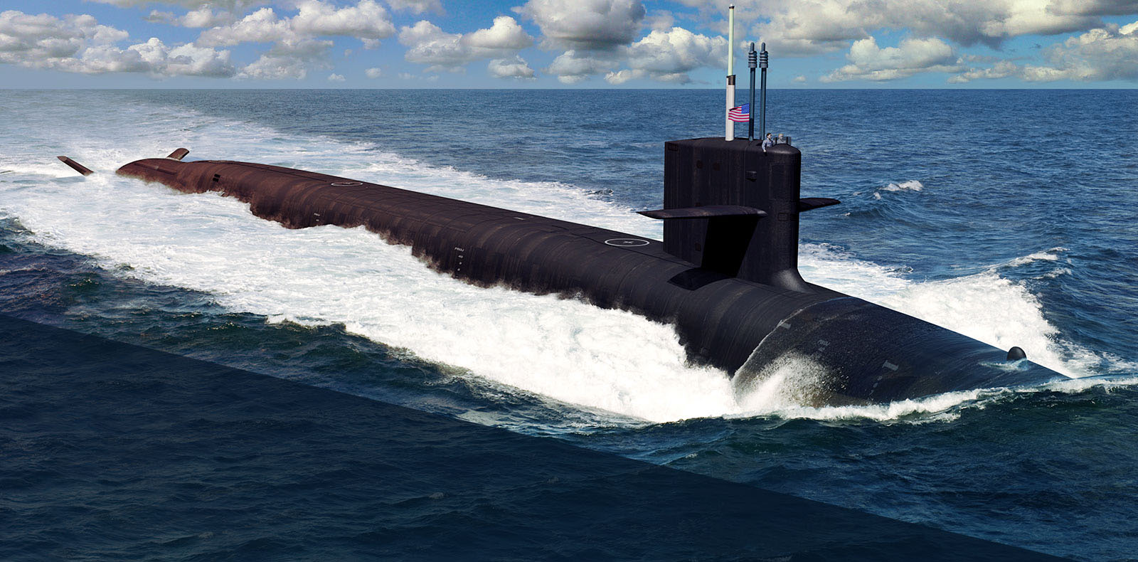 An undated artist’s rendering of the planned Columbia-class submarine. Naval Sea Systems Command Image (PNG)